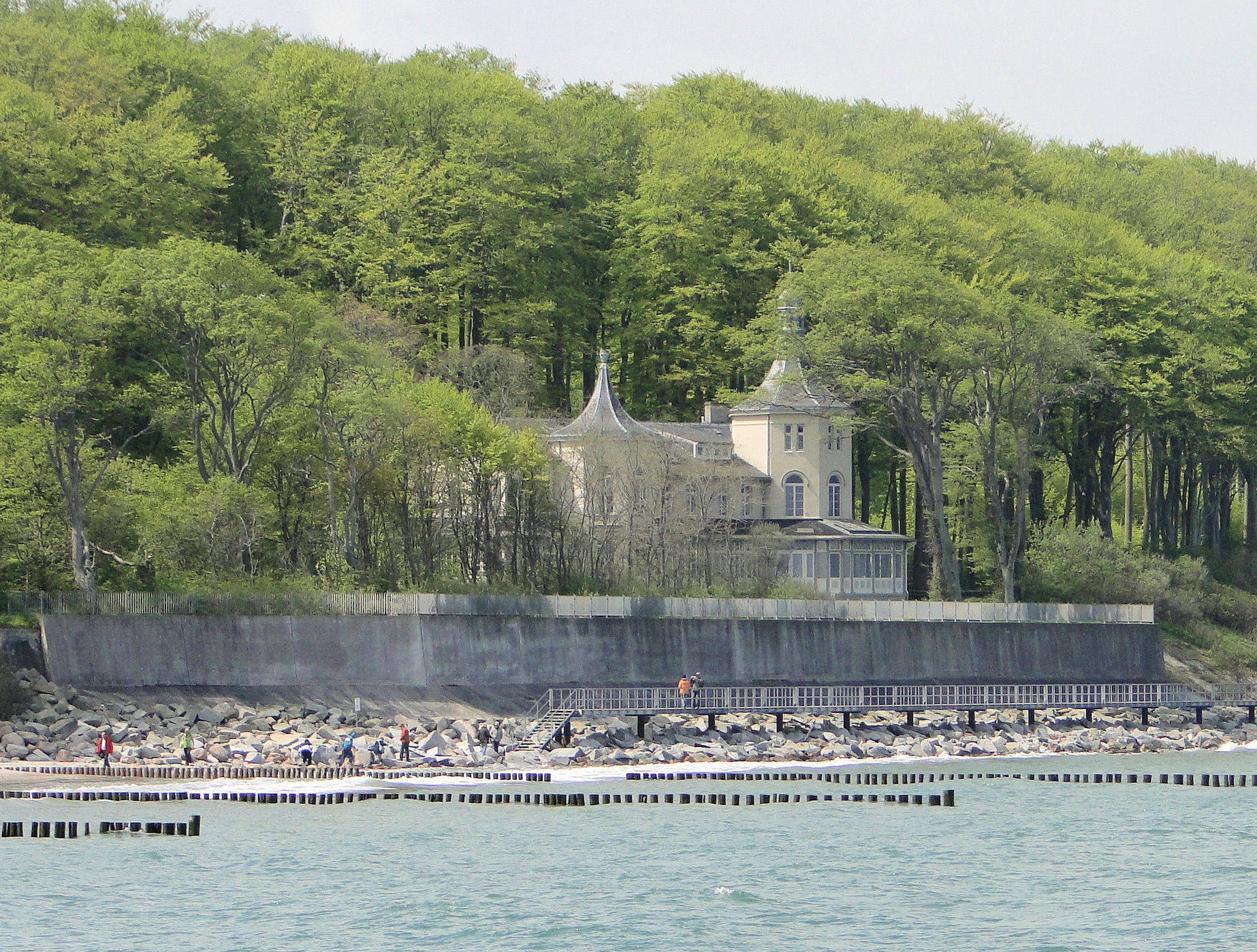 Alexandrinen-Cottage in Heiligendamm, disctrict Bad Doberan, Mecklenburg-Vorpommern, Germany